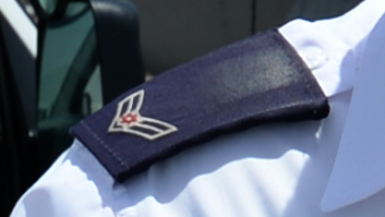 U.S. Air Force Capt. Jason Carter, medical readiness flight commander assigned to the 86th Medical Support Squadron at Ramstein Air Base, Germany, and Rockford, Ill., native, left, shakes the hand of Amit Michael, a Magen David Adom special medic, right, in front of a U.S. Air Force C-17 Globemaster aircraft and two Israeli ambulances after a simulated medical evacuation on the flightline of Ben Gurion Airport in Tel Aviv, Israel, May 20, 2014 as part of the Juniper Cobra 14 defense training exercise. JC14 is part of a long-standing agreement between U.S. European command and the Israeli Defense Force to hold bilateral training exercises on a regular basis in order to promote and sustain regional stability, and to ensure Israel?s qualitative military edge. (U.S. Air Force photo by Staff Sgt. Joe W. McFadden/Released)